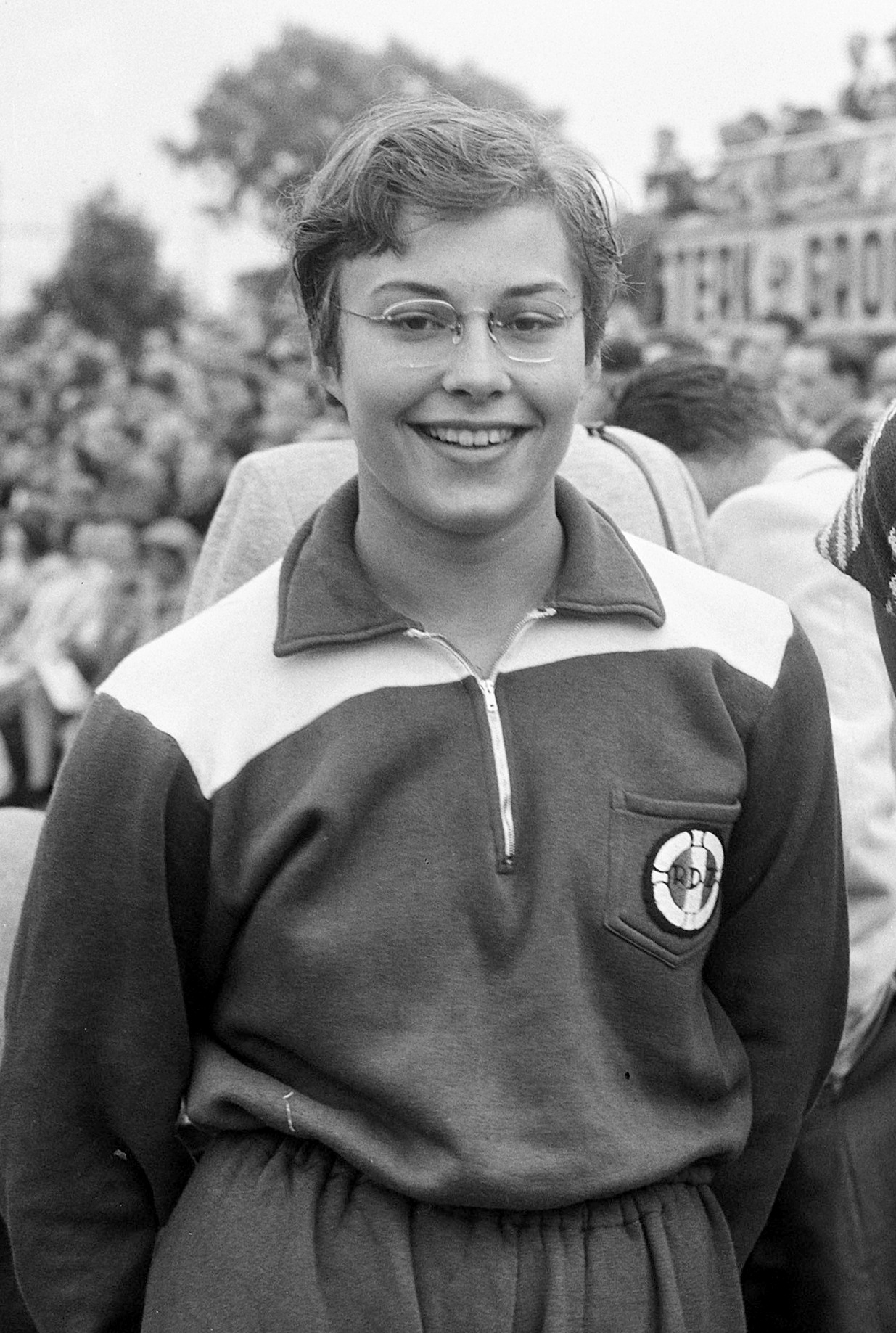 Ria van der Horst